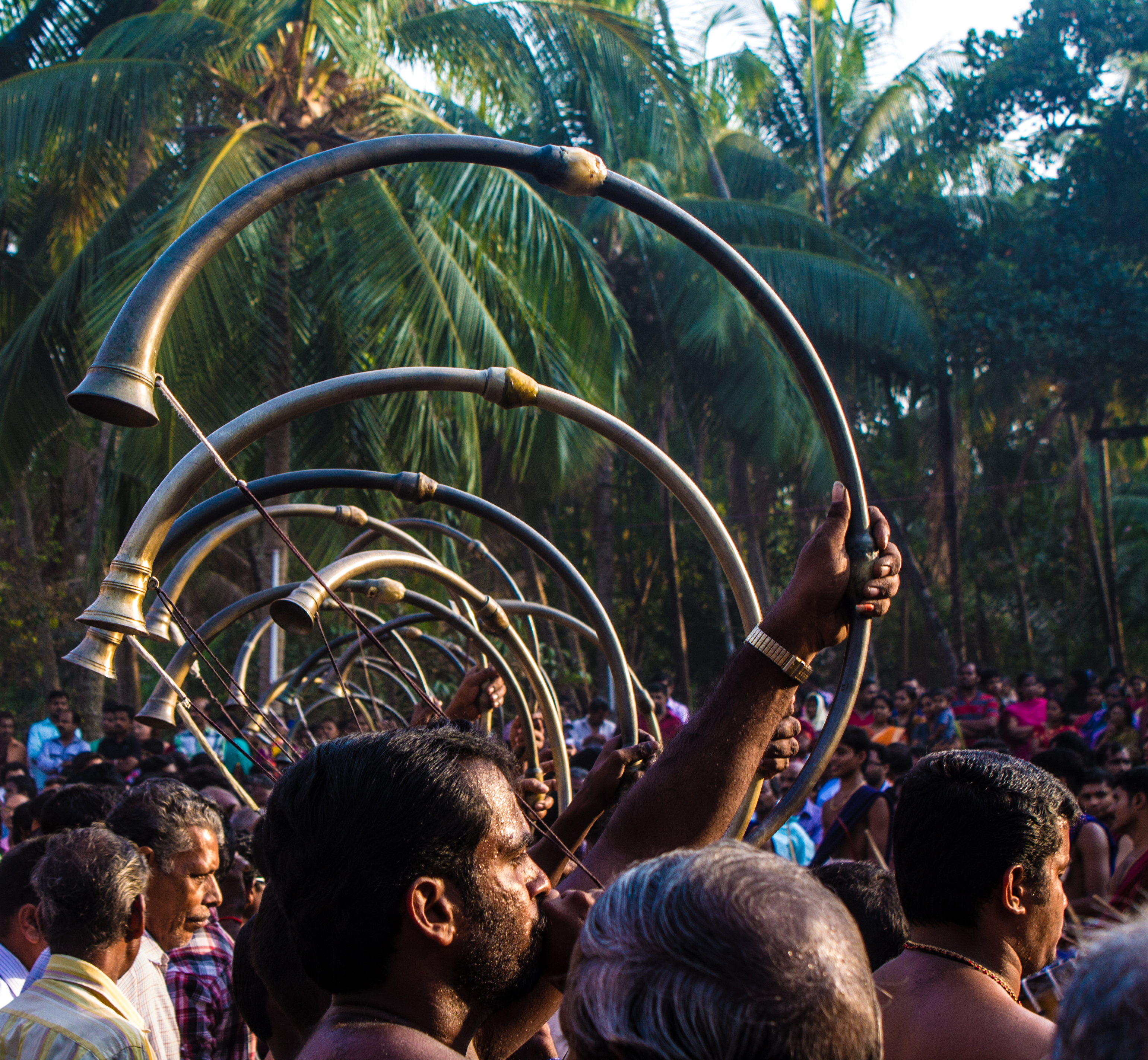 Kombu is a traditional musical instrument used in kerala